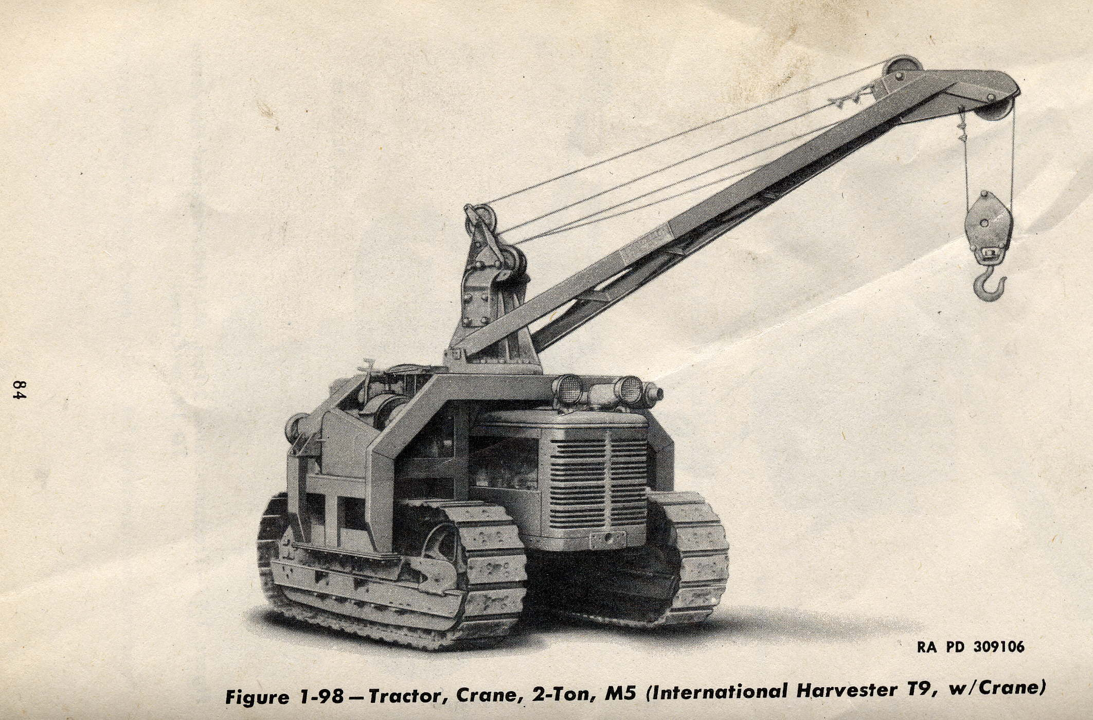 M5 Tractor crane International Harvester T9